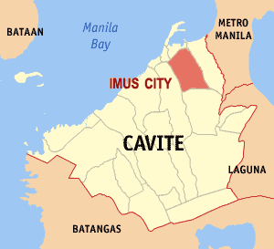 Map of Cavite showing the location of Imus